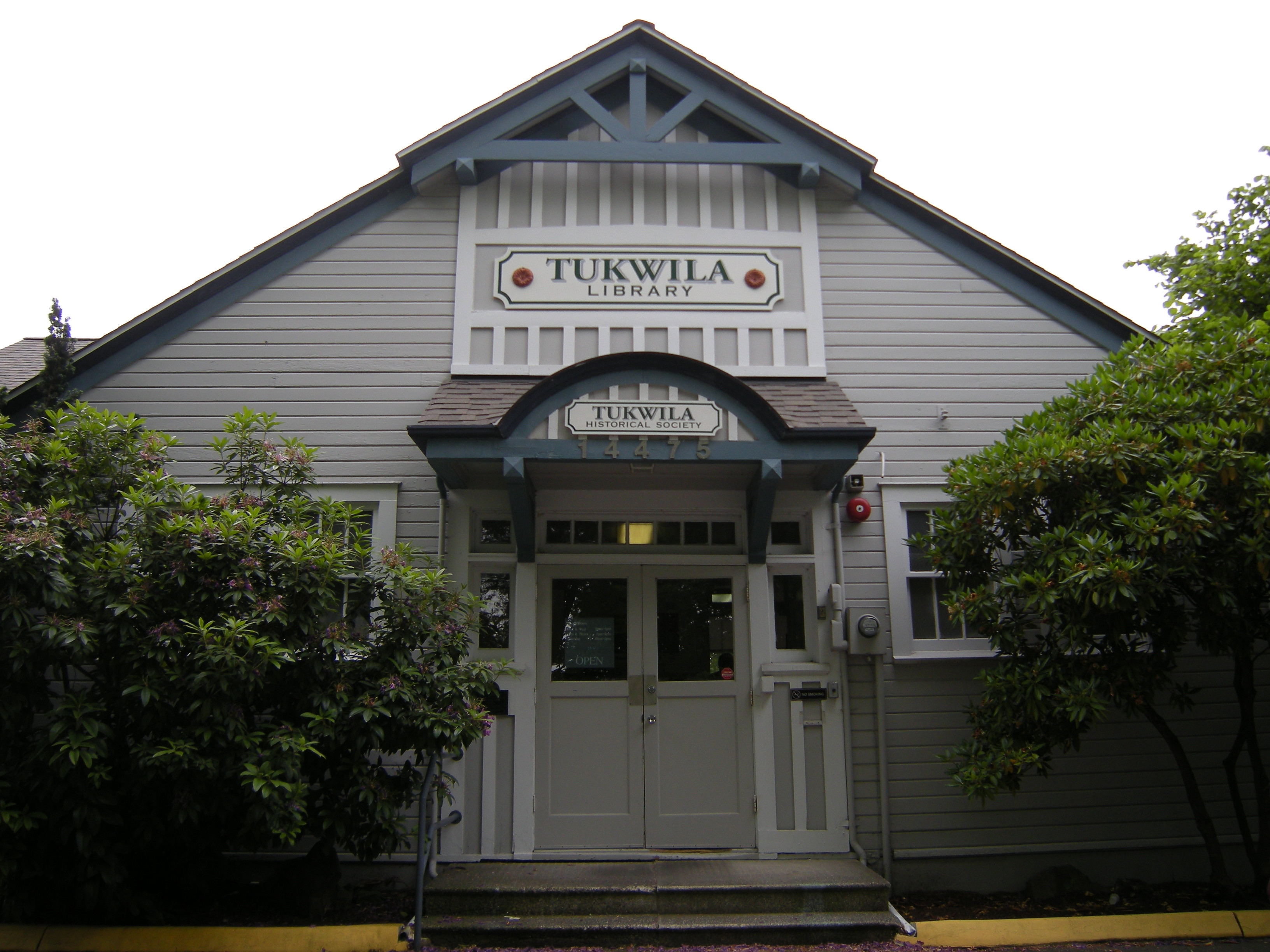 Tukwila Library (the former Tukwila School), 14475 59th Ave. S., Tukwila, Washington. Part of the King County Library System. The building is listed on the National Register of Historic Places.